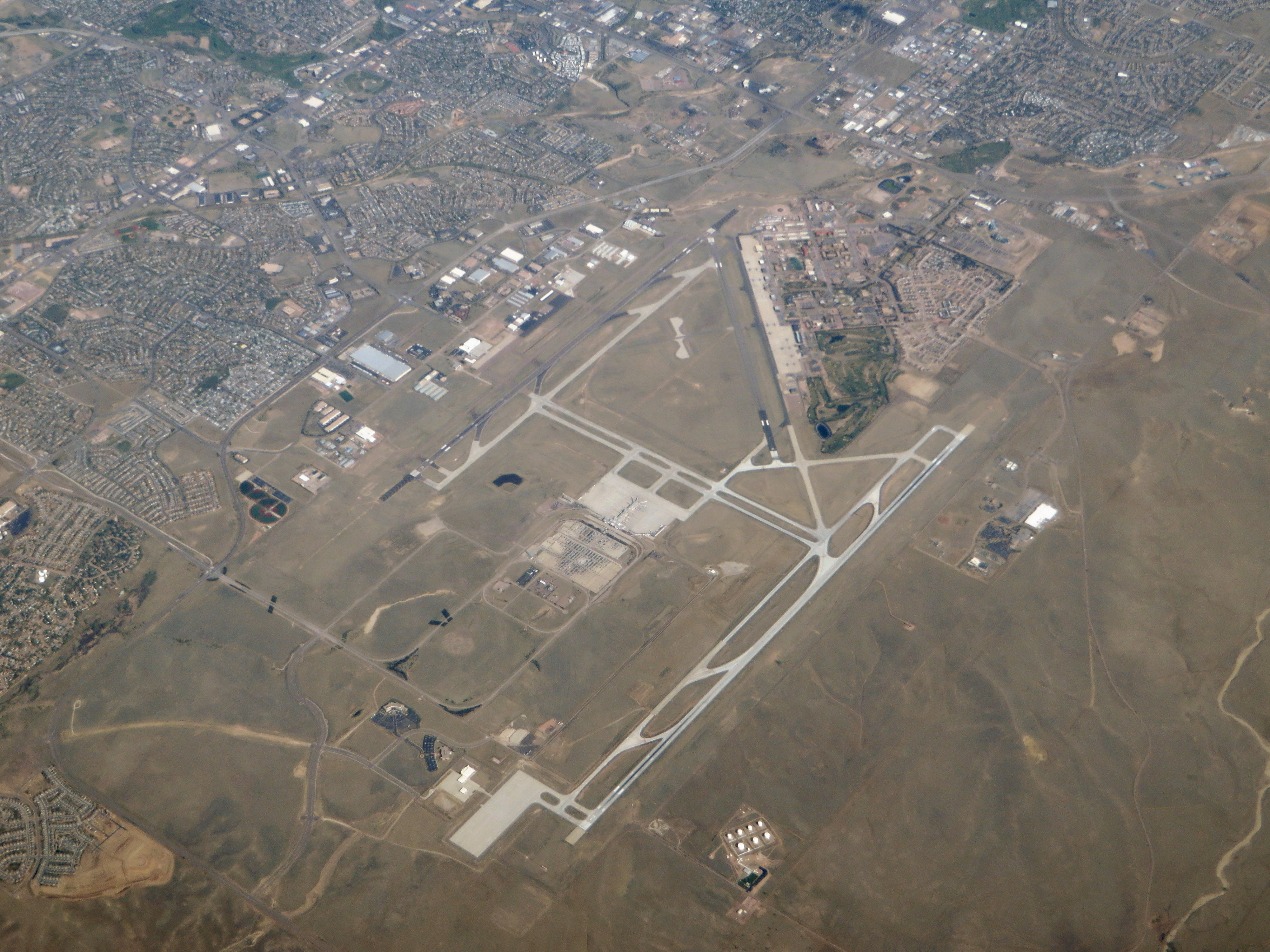 City of Colorado Springs Municipal Airport (also known as Colorado Springs Airport) is a city-owned public civil-military airport 6 miles (10 km) southeast of Colorado Springs, in El Paso County, Colorado. It is the second busiest airport in the state. The airport is co-located with Peterson Air Force Base which is on the north side of runway 12/30.